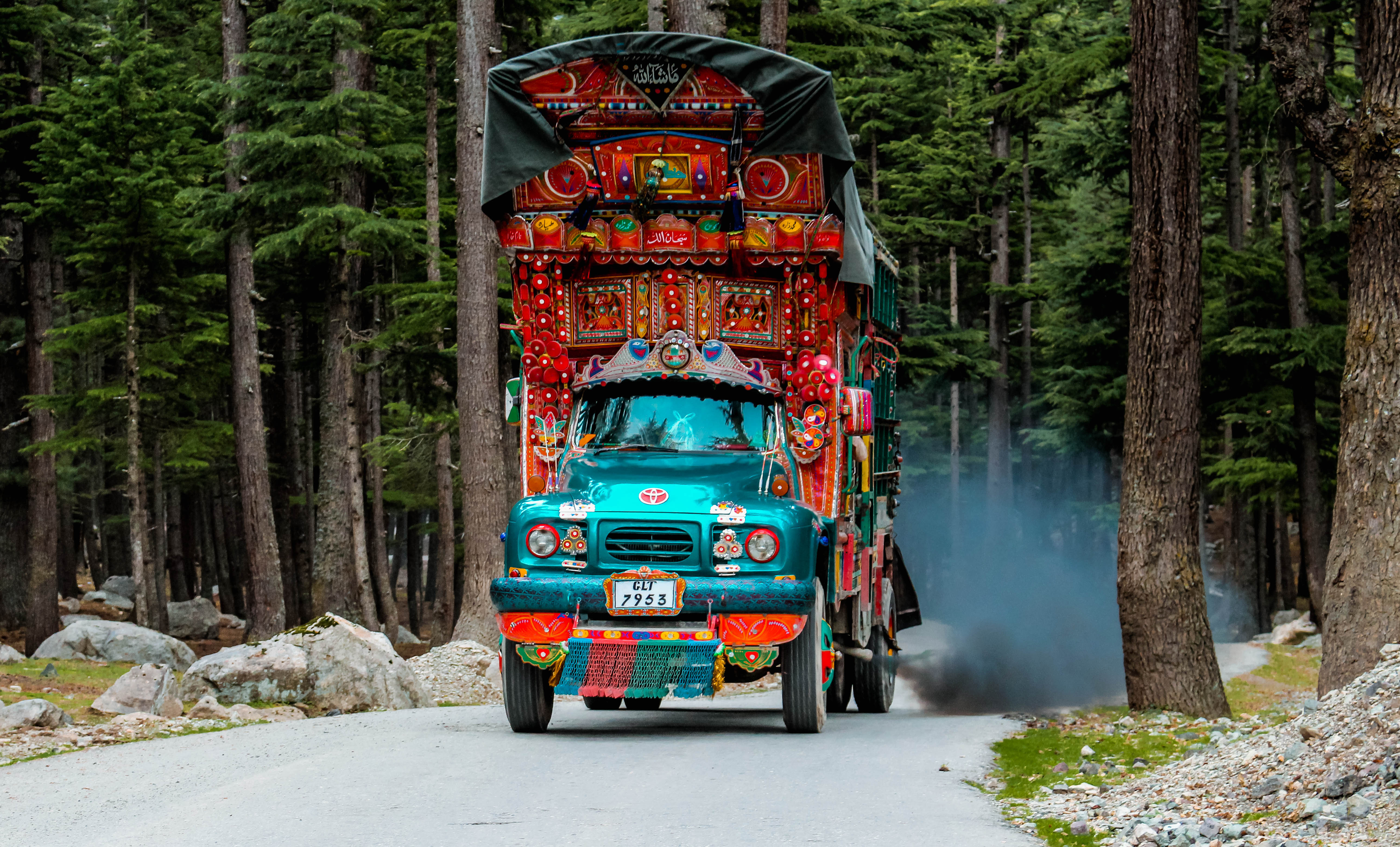 The Most Beautiful Trucks Of Northern Area's Click in Swat Pakistan